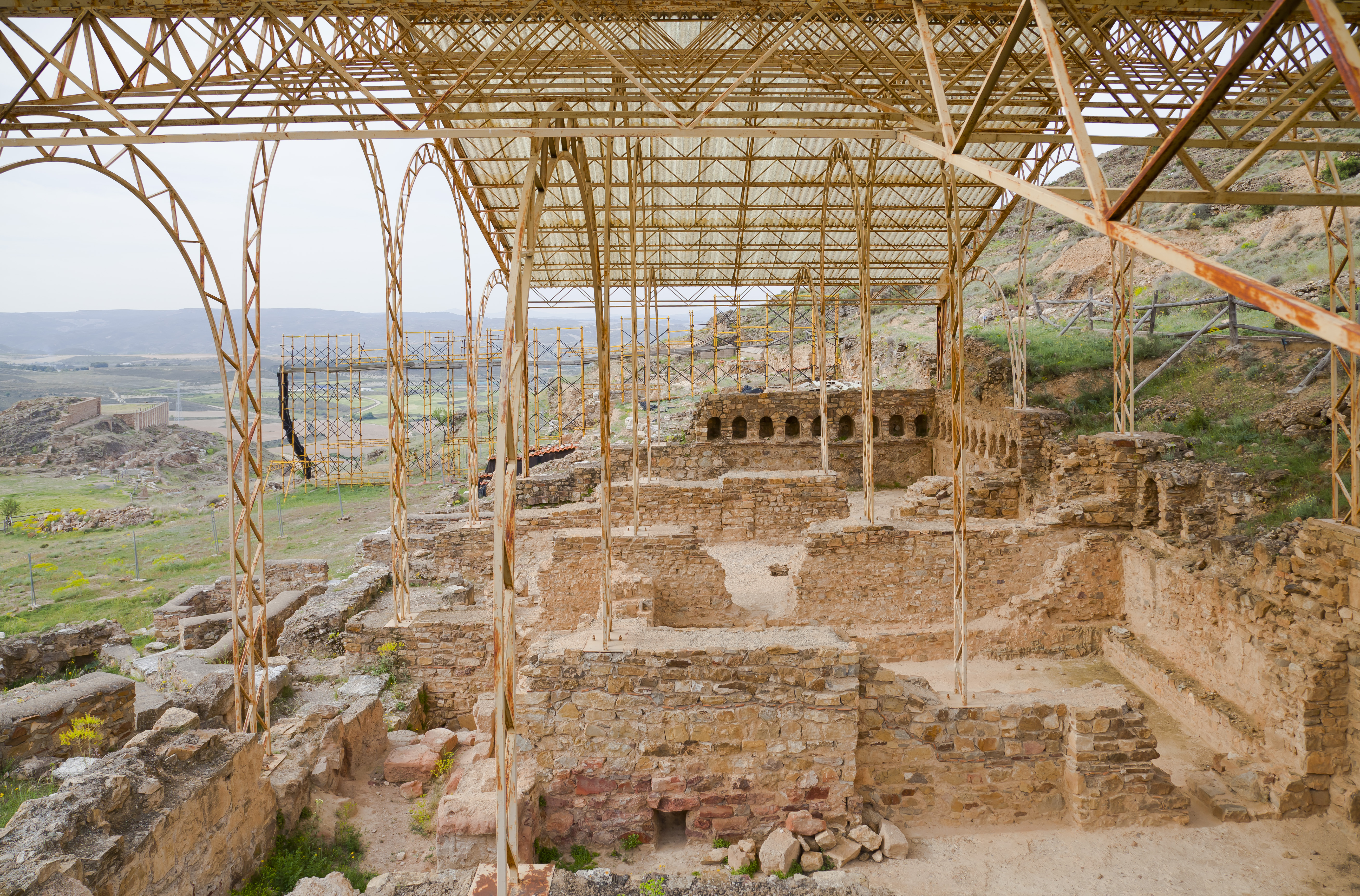 Ruins of the ancient roman city of Bilbilis, Calatayud, Spain